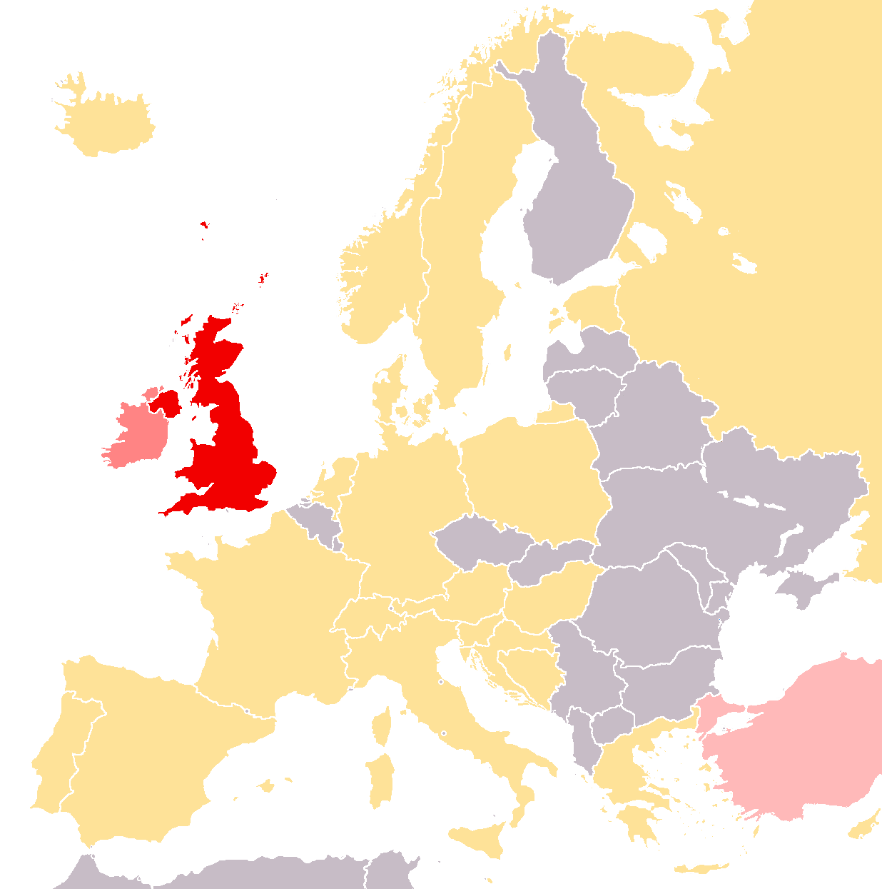 Map of Eurovision 1997